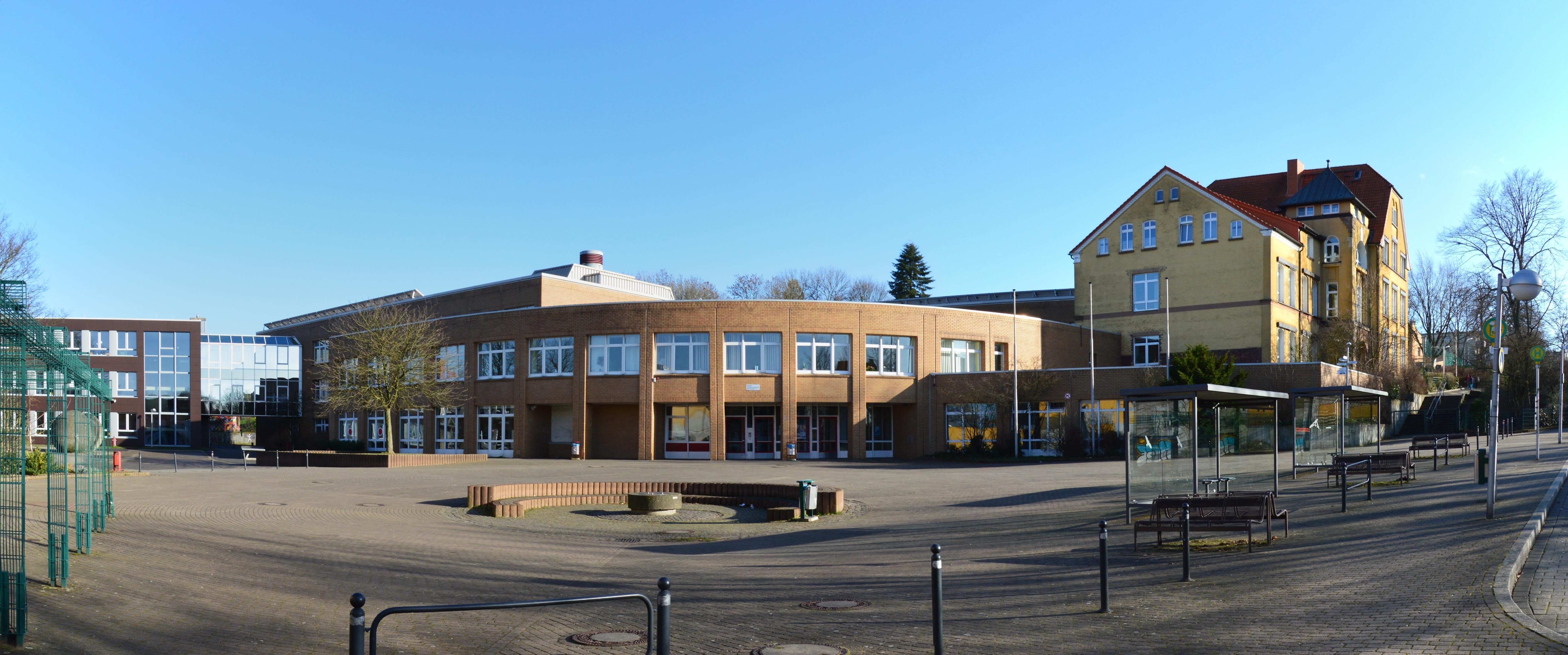 School Holzkamp-Gesamtschule in Witten